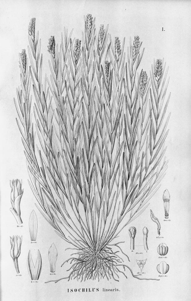 Illustration of Isochilus linearis